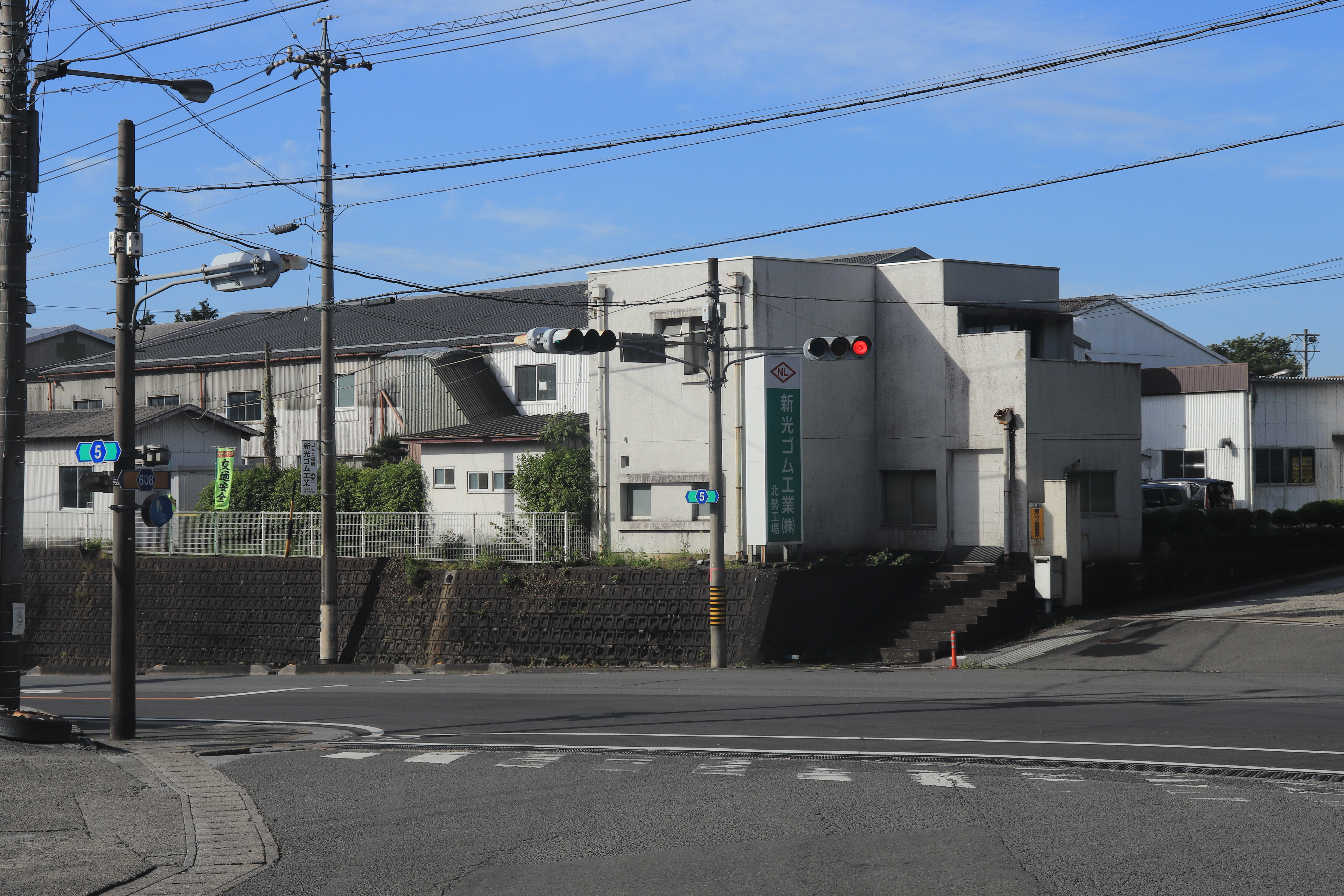 Mie Prefectural Road Route 5 and Mie Prefectural Road Route 608 in Ageki, Inabe, Mie Prefecture, Japan.